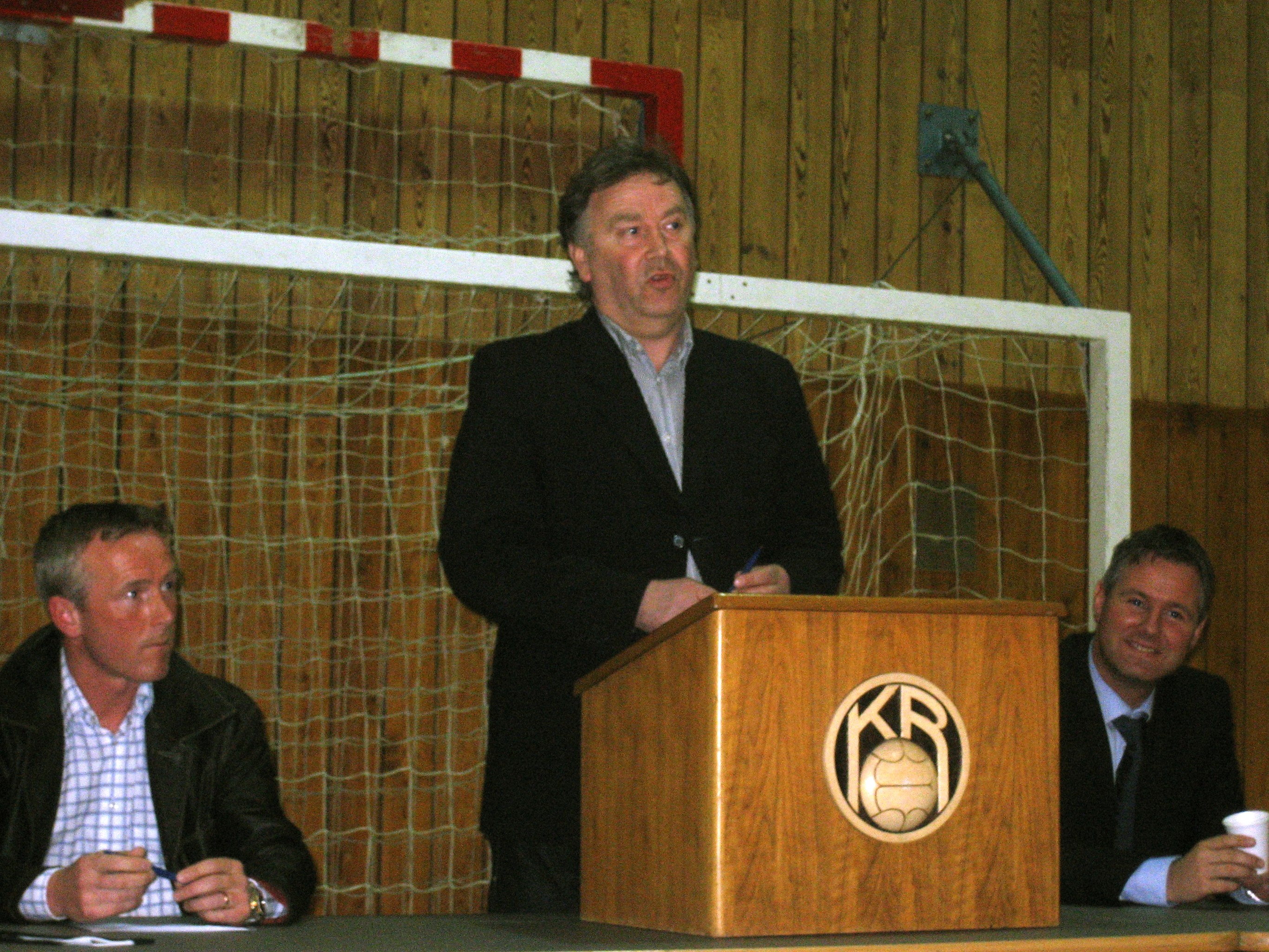 Logi Ólafsson speaking at the KR heimilið. To his left is Kristinn Jakobsson refferee and to his right is Kristinn Kjærnested.